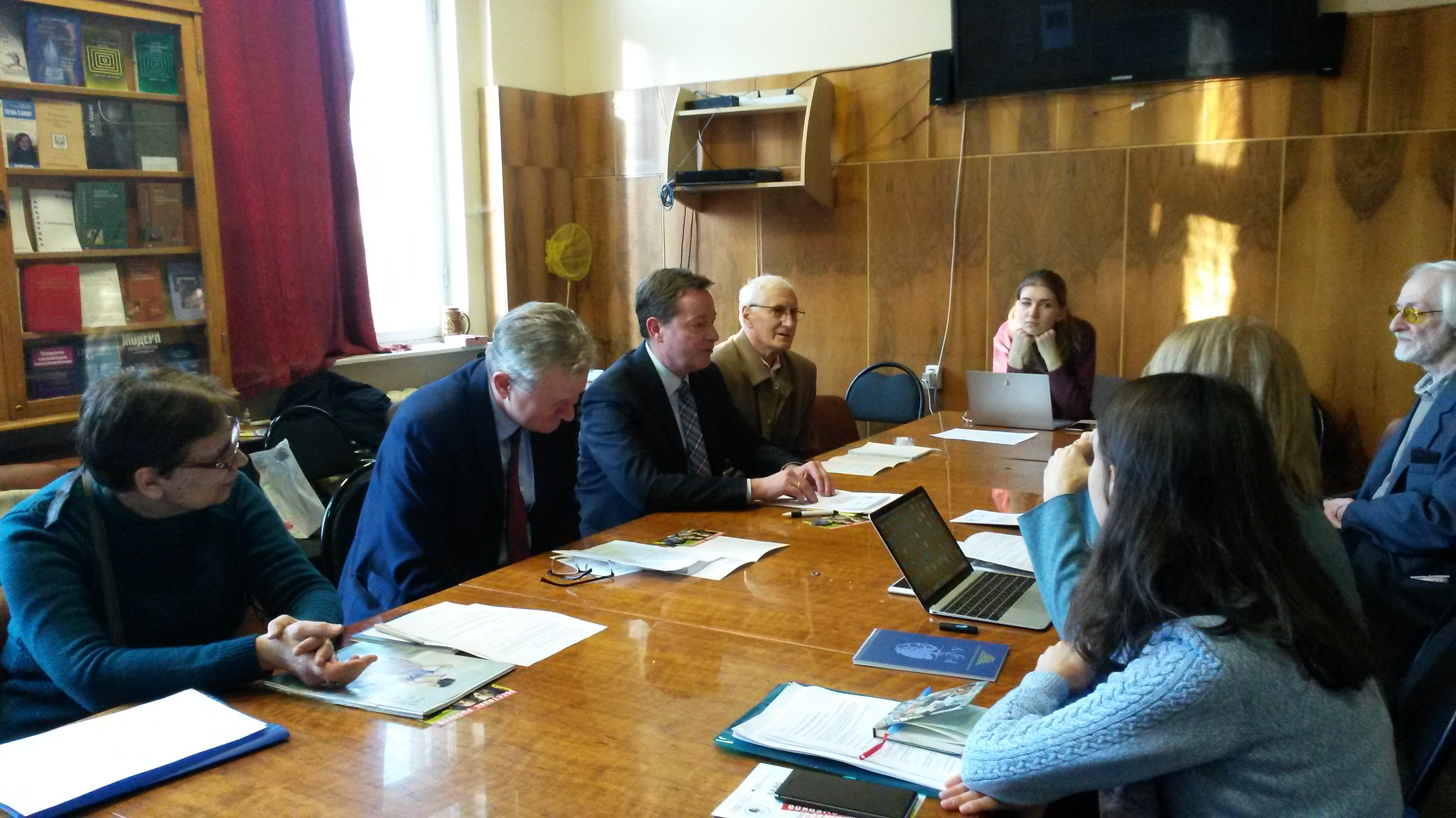 The topic "War and Peace" at Erwin Piscator. Scientific conference on the occasion of the 125th birthday of Erwin Piscator. Russian State Humanities University (RGGU), Moscow, Russian Federation, Friday, November 30, 2018. Welcome speech by Jan Kantorczyk, Head of the Cultural Department of the Embassy of the Federal Republic of Germany in Russia (third from left); right next to him theatre scholar Vladimir F. Koljazin, State Institute for Art Studies, Moscow, conference initiator